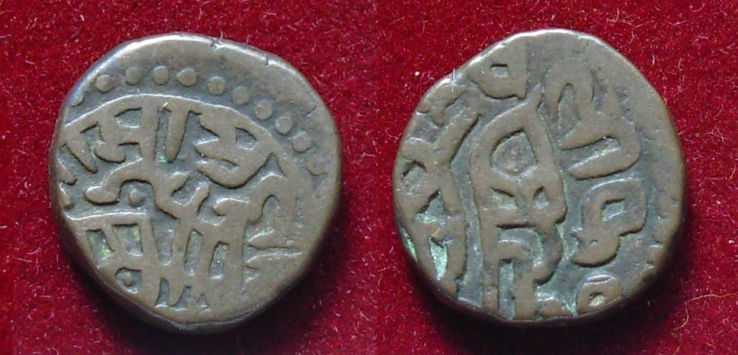 image from personal collection